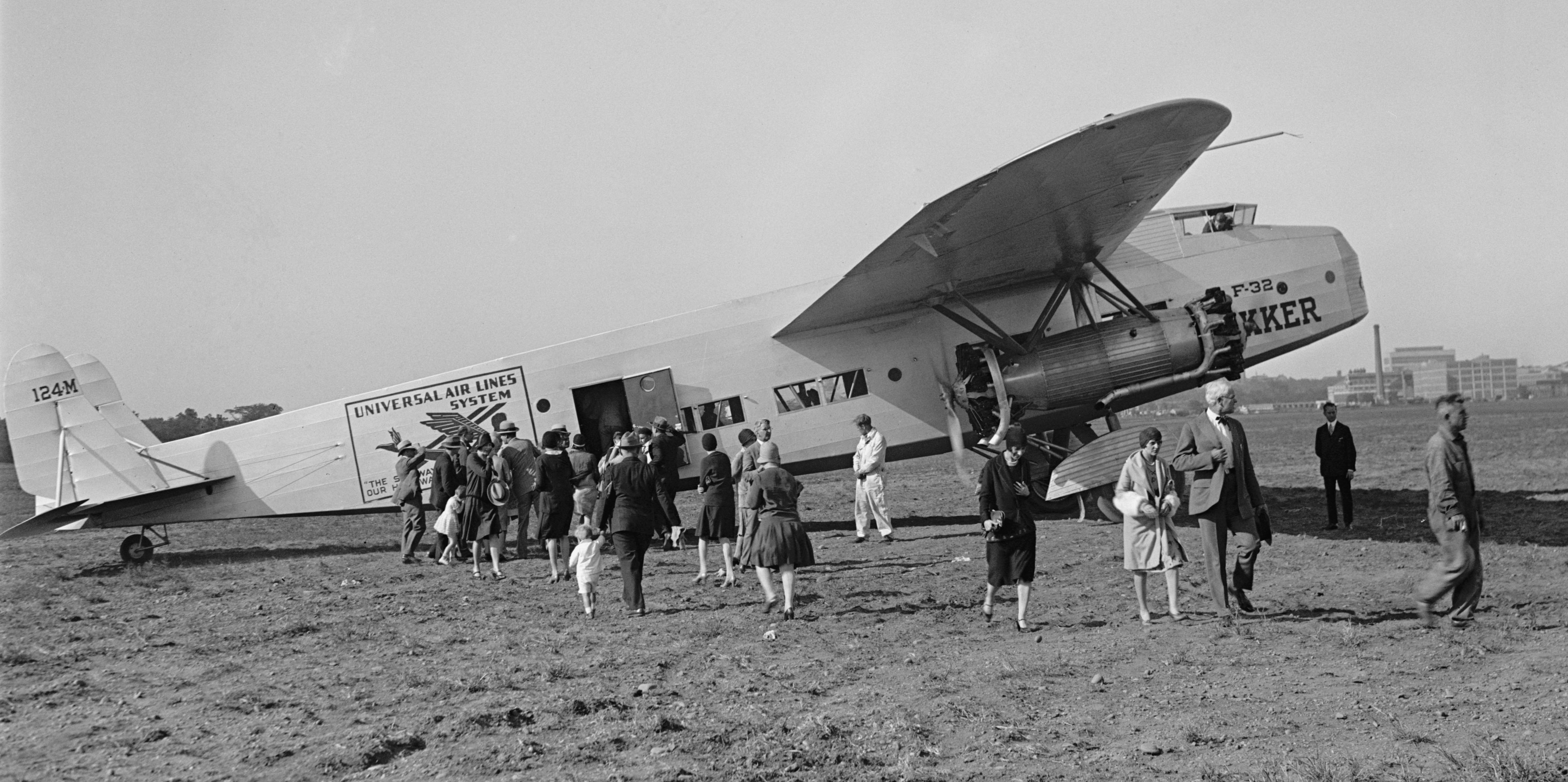 Fokker F.32 aircraft, one of 10 built.